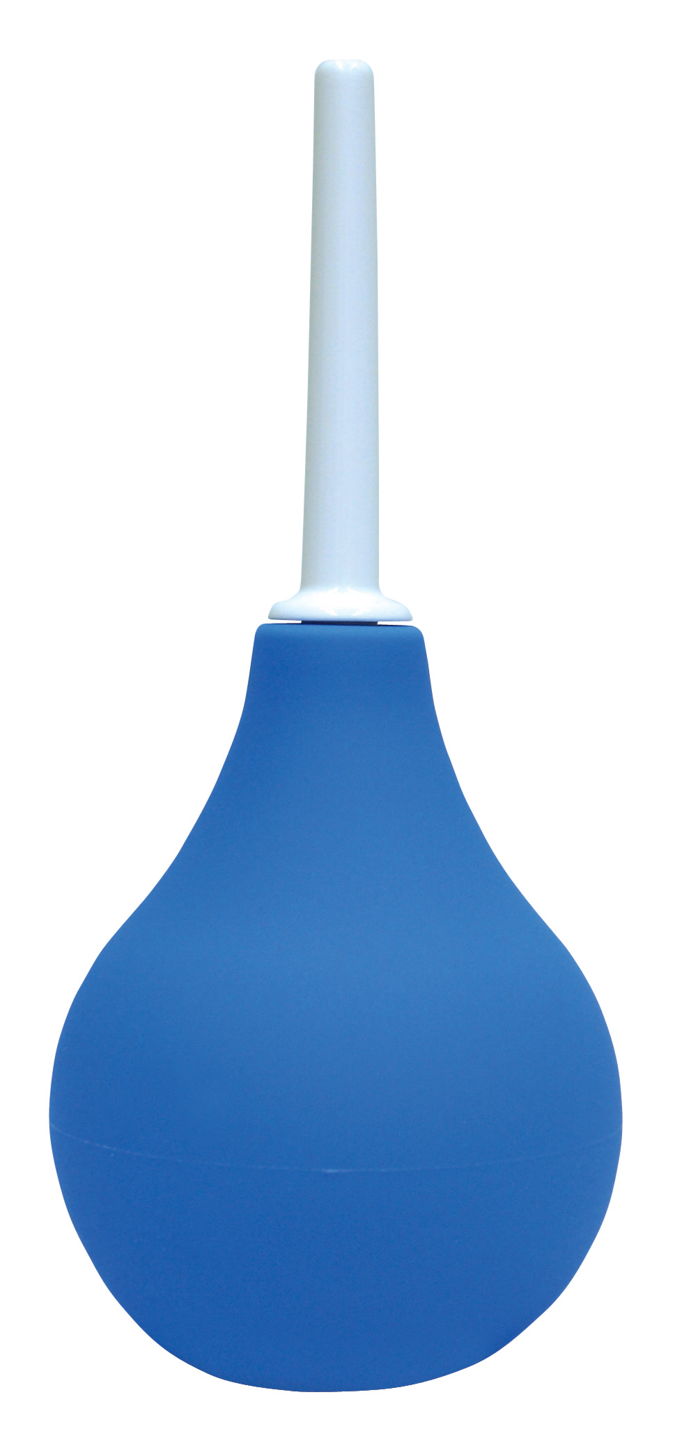 syringe type B, produce by Alpina Plast